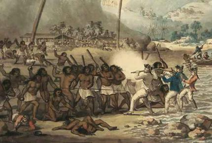 "The Death of Cook" by Cleveley original, discovered in a private British collection in 2004, depicting Captain James Cook as one of the participants in the battle between sailors and native Hawaiians.